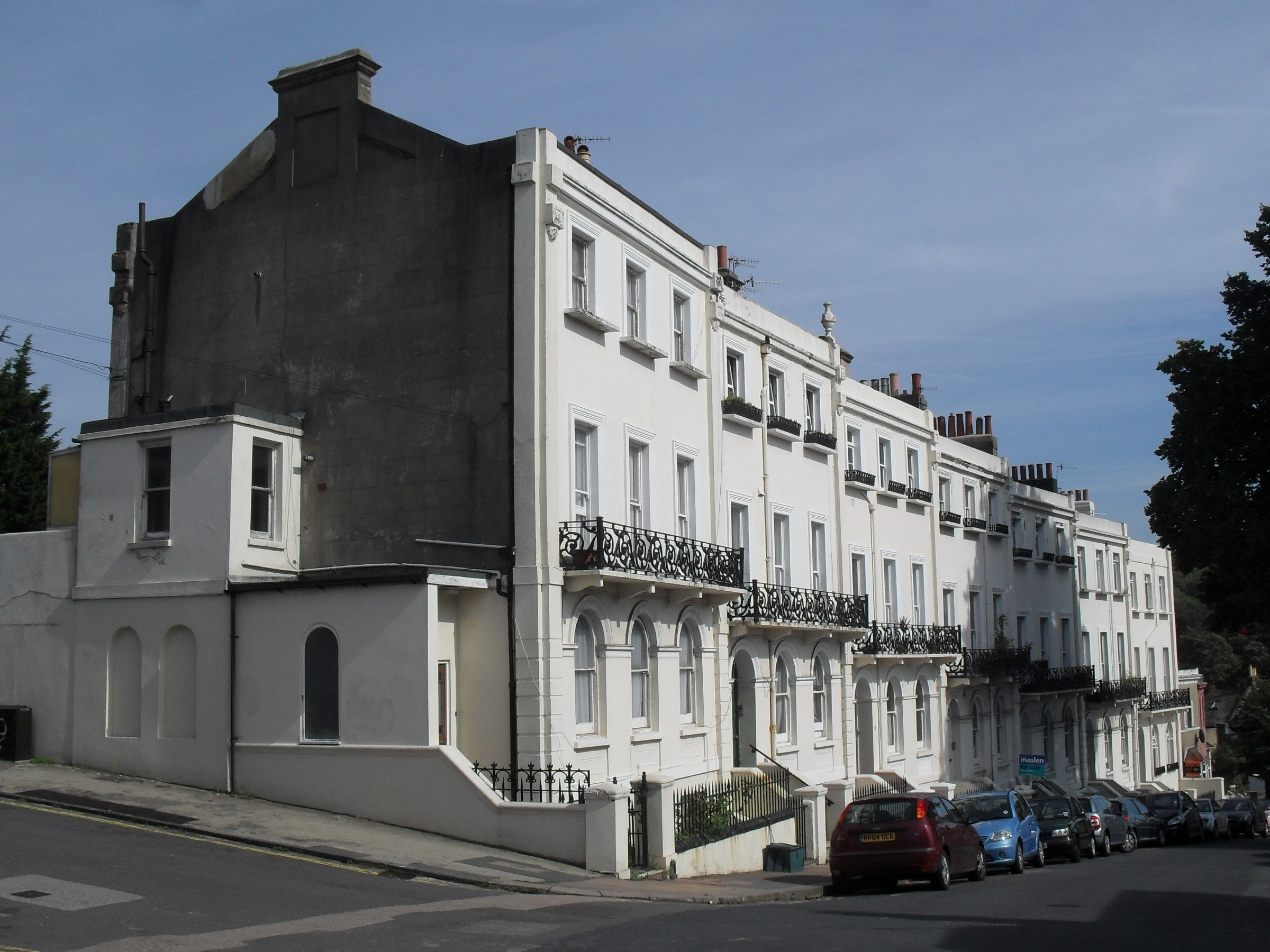 101–113 Roundhill Crescent, Round Hill, City of Brighton and Hove, England. A terrace of middle-class housing built in the 1860s. Listed at Grade II by English Heritage (IoE Code 481161)